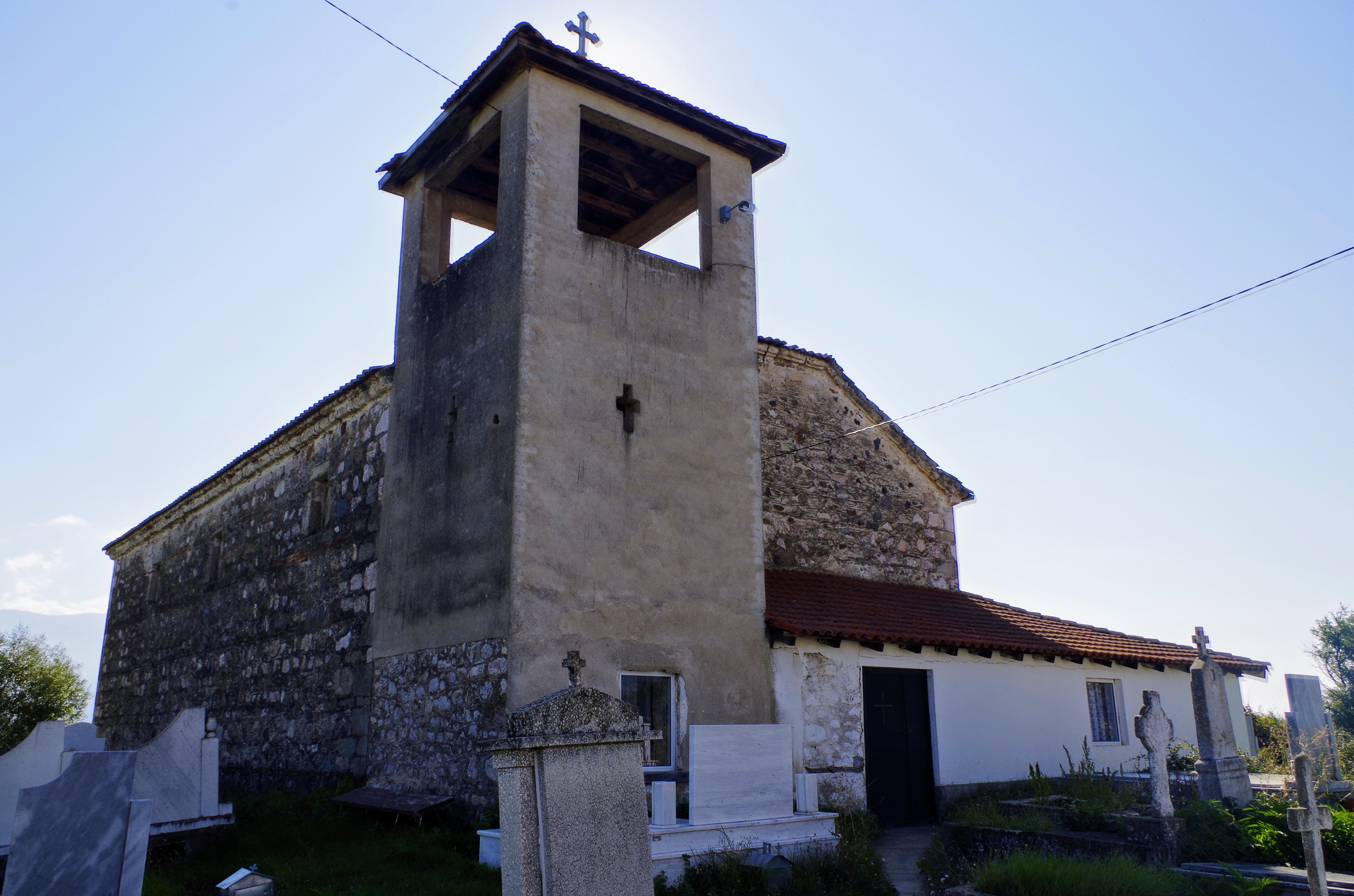 View of the St. Athanasius Church in the village Dolno Perovo